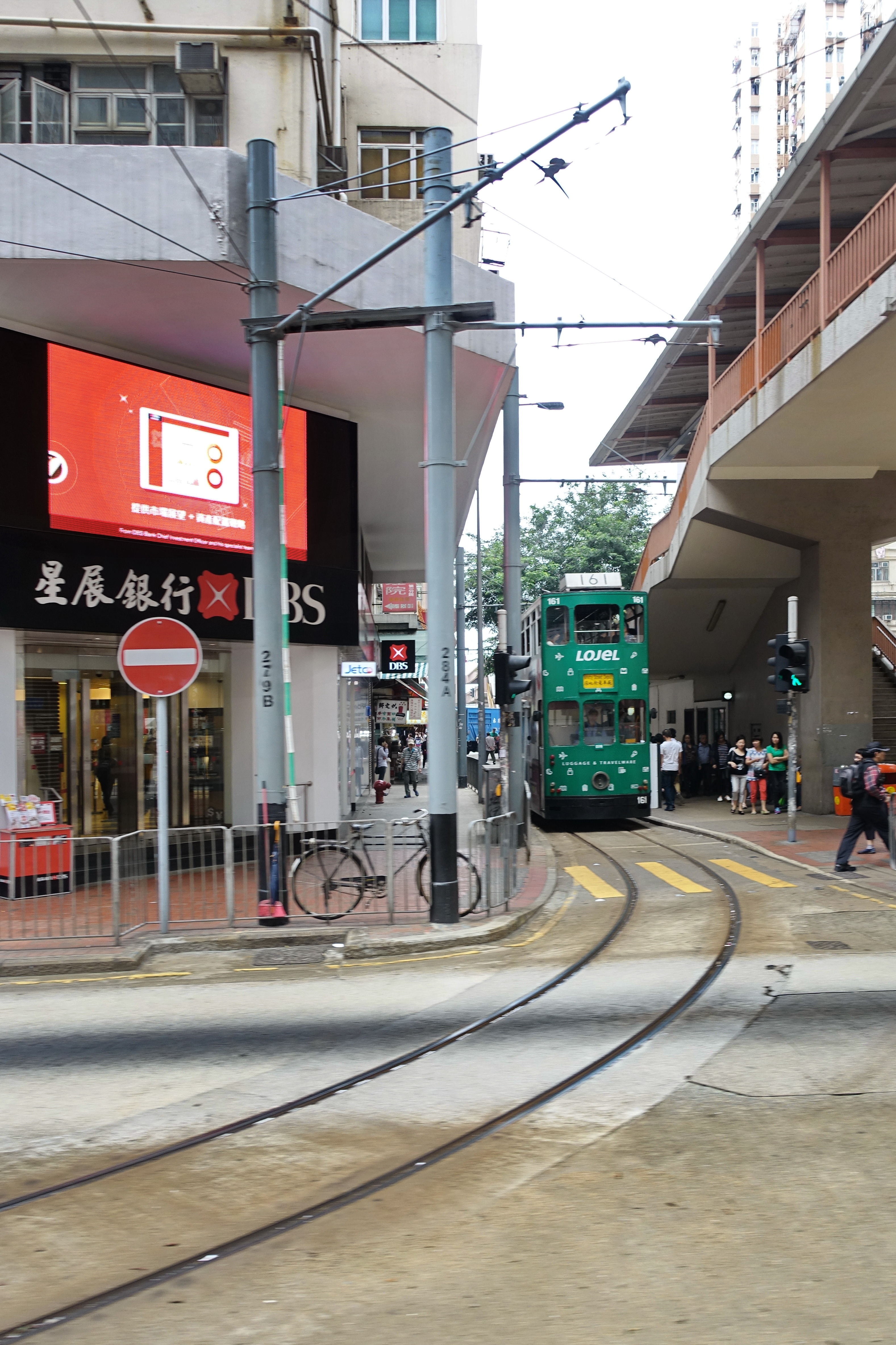 North Point terminus of Hong Kong Tramway at Tong Shui Road, Hong Kong.